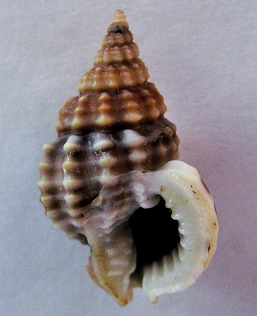 Nassarius tritoniformis (Kiener, 1841) ; Guinea Bissau